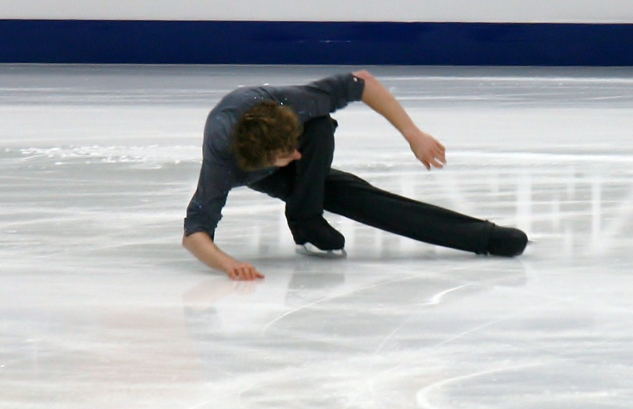 Kim Lucine at the 2011 World Figure Skating Championships